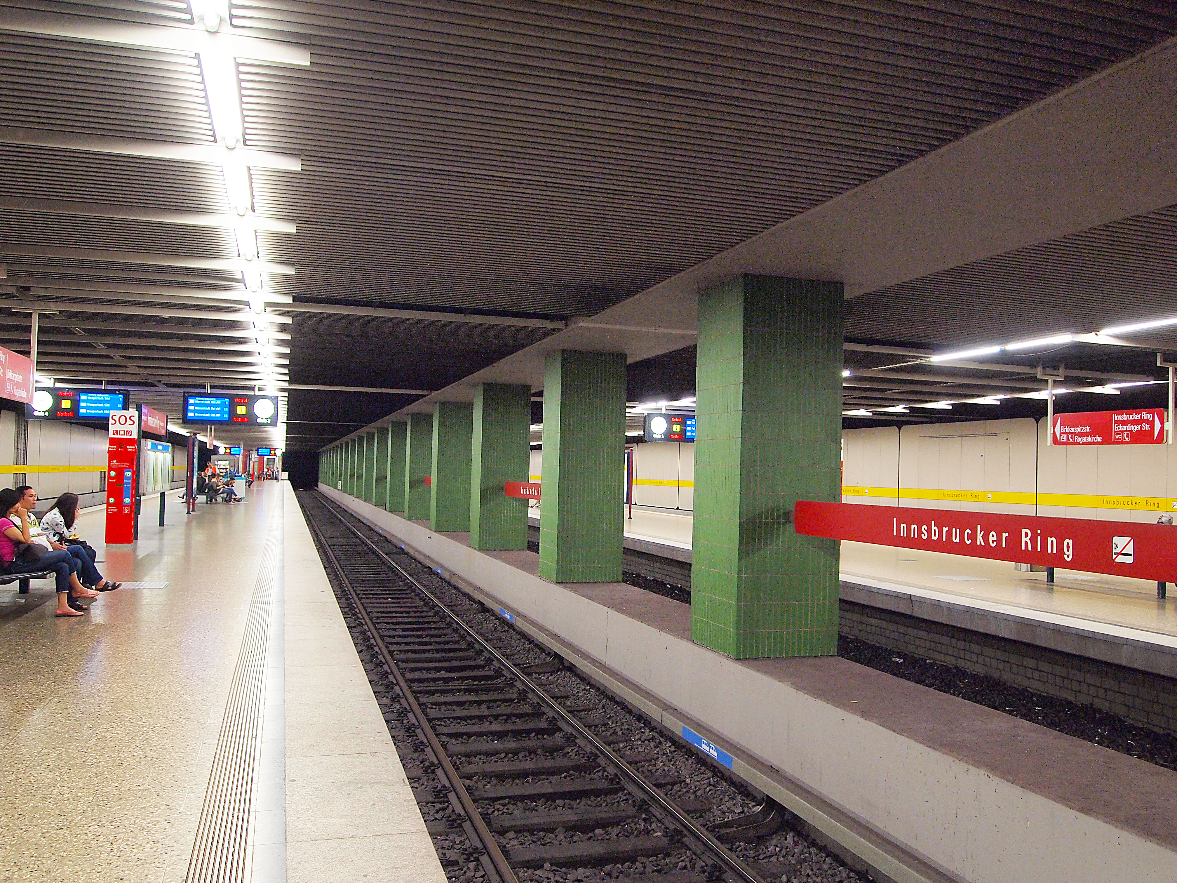 Innsbrucker Ring station in Munich.This photograph was taken with an Olympus E-PL1